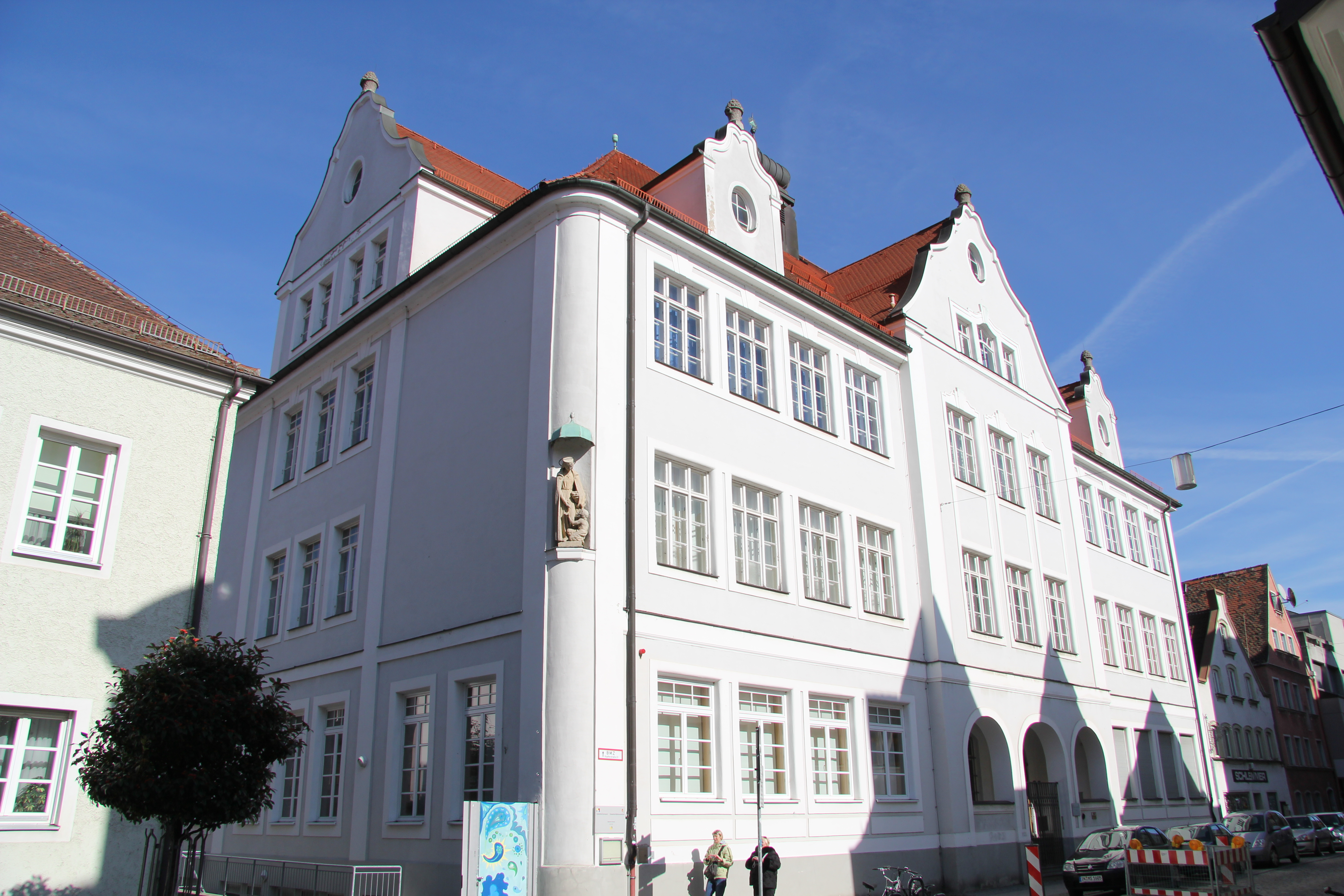 Ingolstadt, Elisabethhaus, Kupferstraße 23, part of Gnadenthal-Gymnasium/-Realschule of the Franciscan nuns